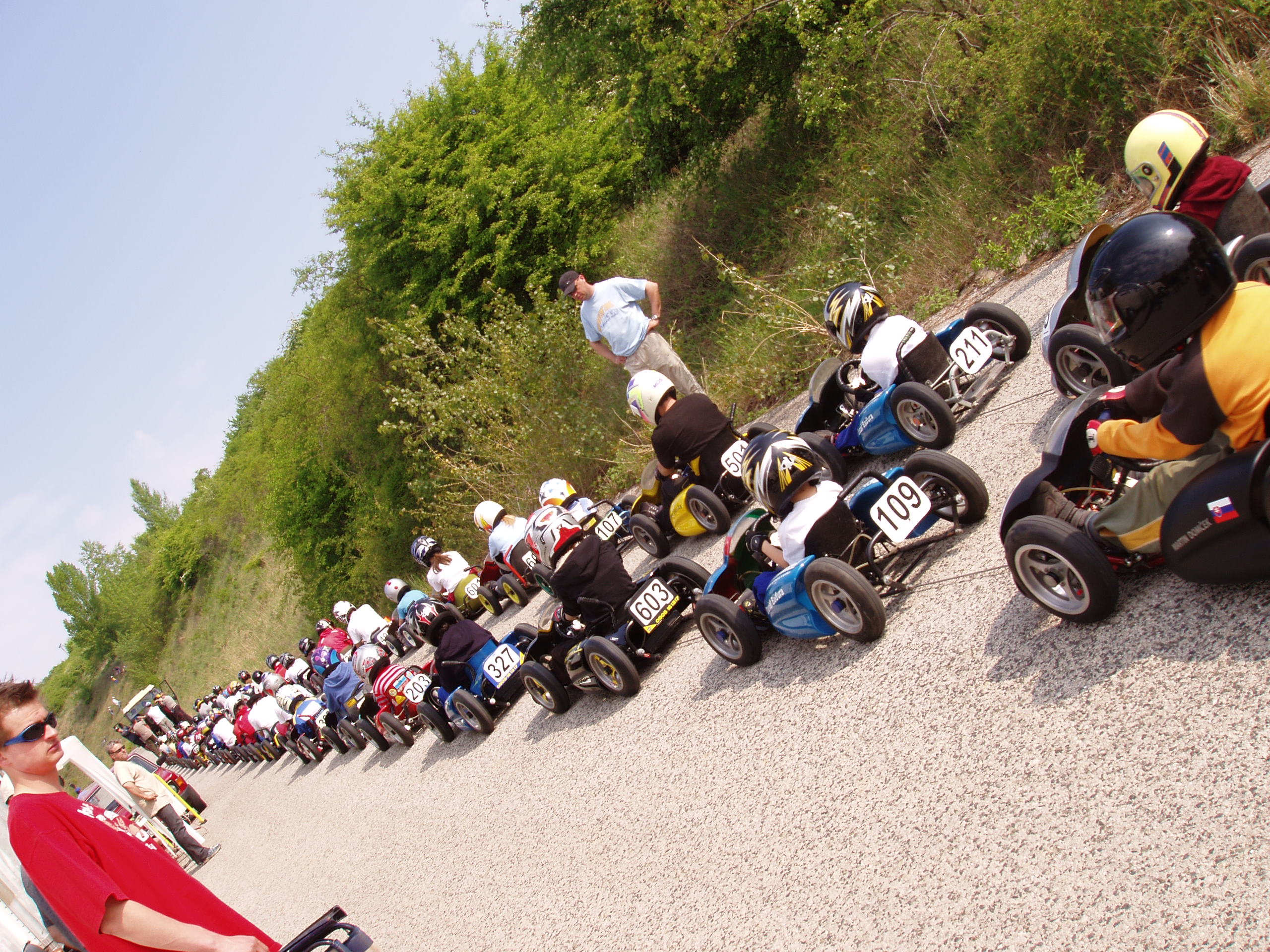 Minicarsgo to start